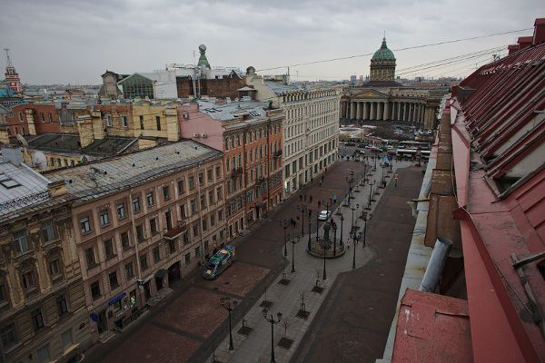 Malaya Konushennaya street. Saint Petersburg, Russia. Photo by Anton Vaganov.